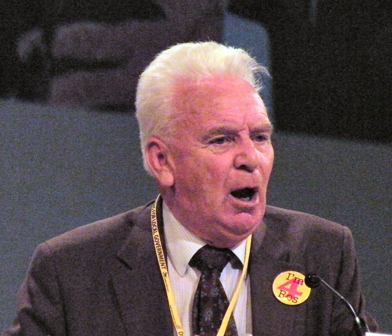 Roger Roberts, Lord Roberts of Llandudno, addressing a Liberal Democrat conference in the Bournemouth International Centre